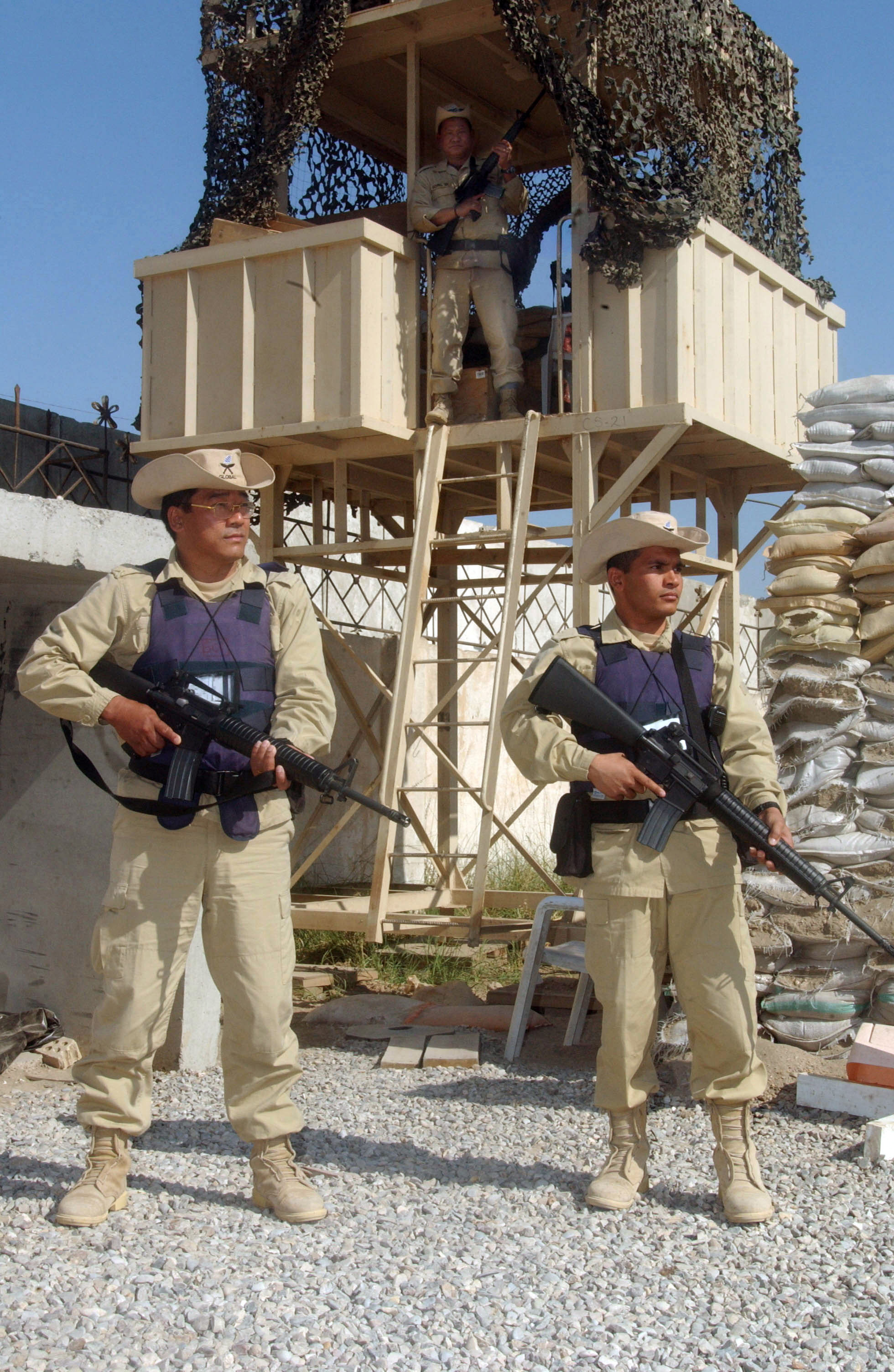 British Gurkha soldiers in Iraq, 2004. ID: DFSD0611405 Service Depicted: 040414F9927R001. Gurkha military members Mr. Tej Bahadur (left), Mr. Chitra Bahadur Chhetri (right) and Mr. Gopal Gurung on the tower, patrol the compounds of the Coalition Provision Authority (CPA) in Baghdad Iraq. The Gurkhas are from the country of Nepal, and are serving in the liberation of Iraq during Operation IRAQI FREEDOM. Additional info from almost identical photo: ID: DFSD0413455 Service Depicted: Other Service 040415F9927R001 Operation / Series: IRAQI FREEDOM Three Royal British Army (UK) Soldiers armed with 5.56mm M16A2 rifles, assigned with the British Royal Gurkha Rifles, monitor activities around the Coalition Provisional Authority compound in Baghdad, Iraq during Operation IRAQI FREEDOM. Pictured left-to-right are Mr. Tej Bahadur, Mr. Gopal Gurung, and Mr. Chitra Bahadur Chhetri.